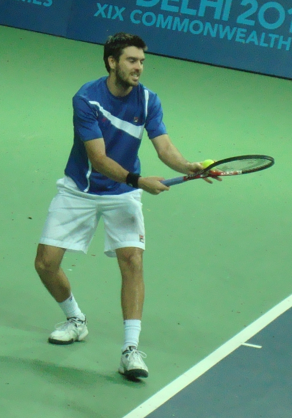 Colin Fleming, a Scottish Tennis player playing in the final of Mixed doubles final of Commonwealth Games 2010. Together with Jocelyn Rae, he won the Gold medal.